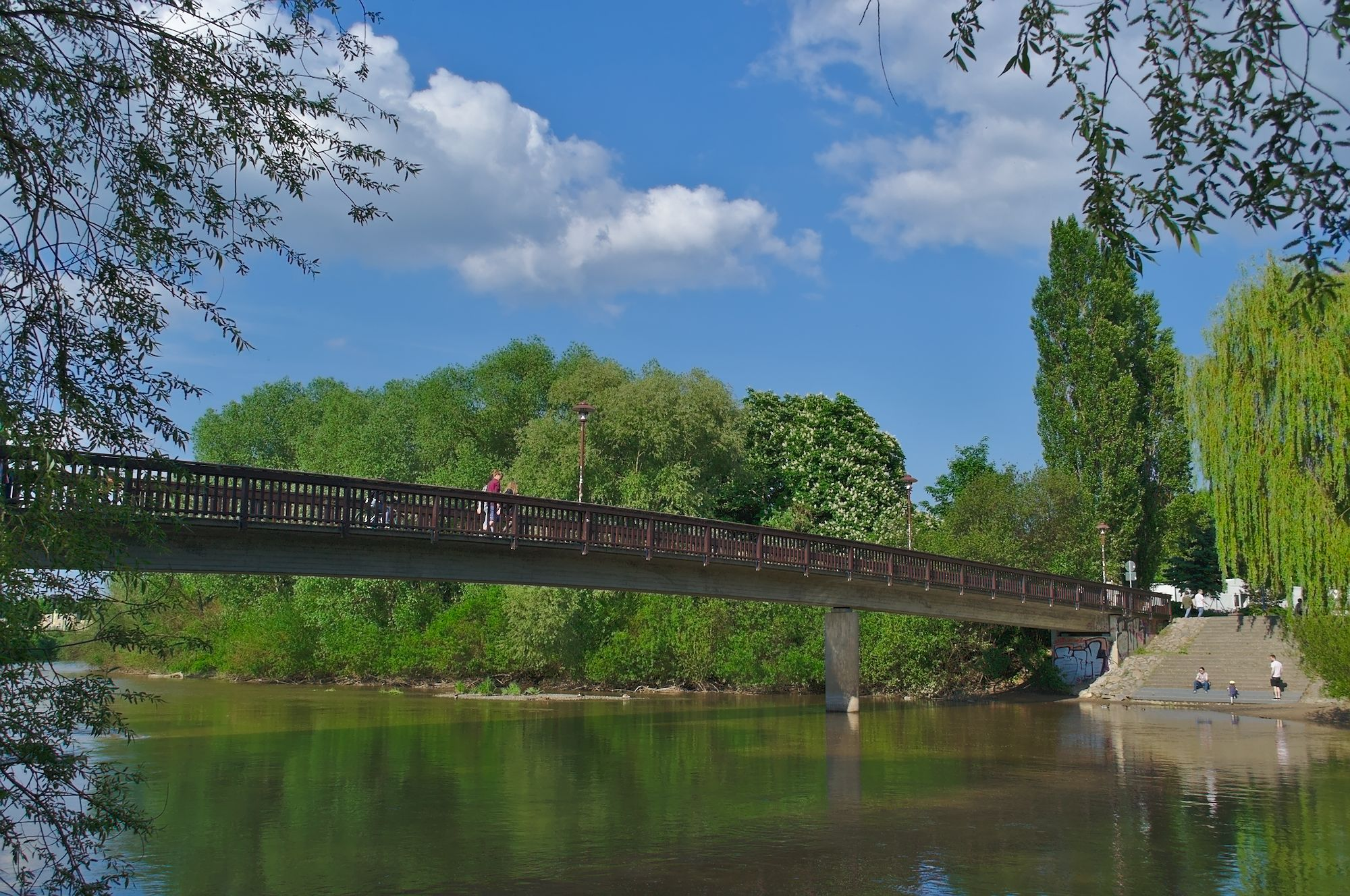 Bridge for Pedestrians crossing the Saale between the nothern centre of Jena and Wenigenjena